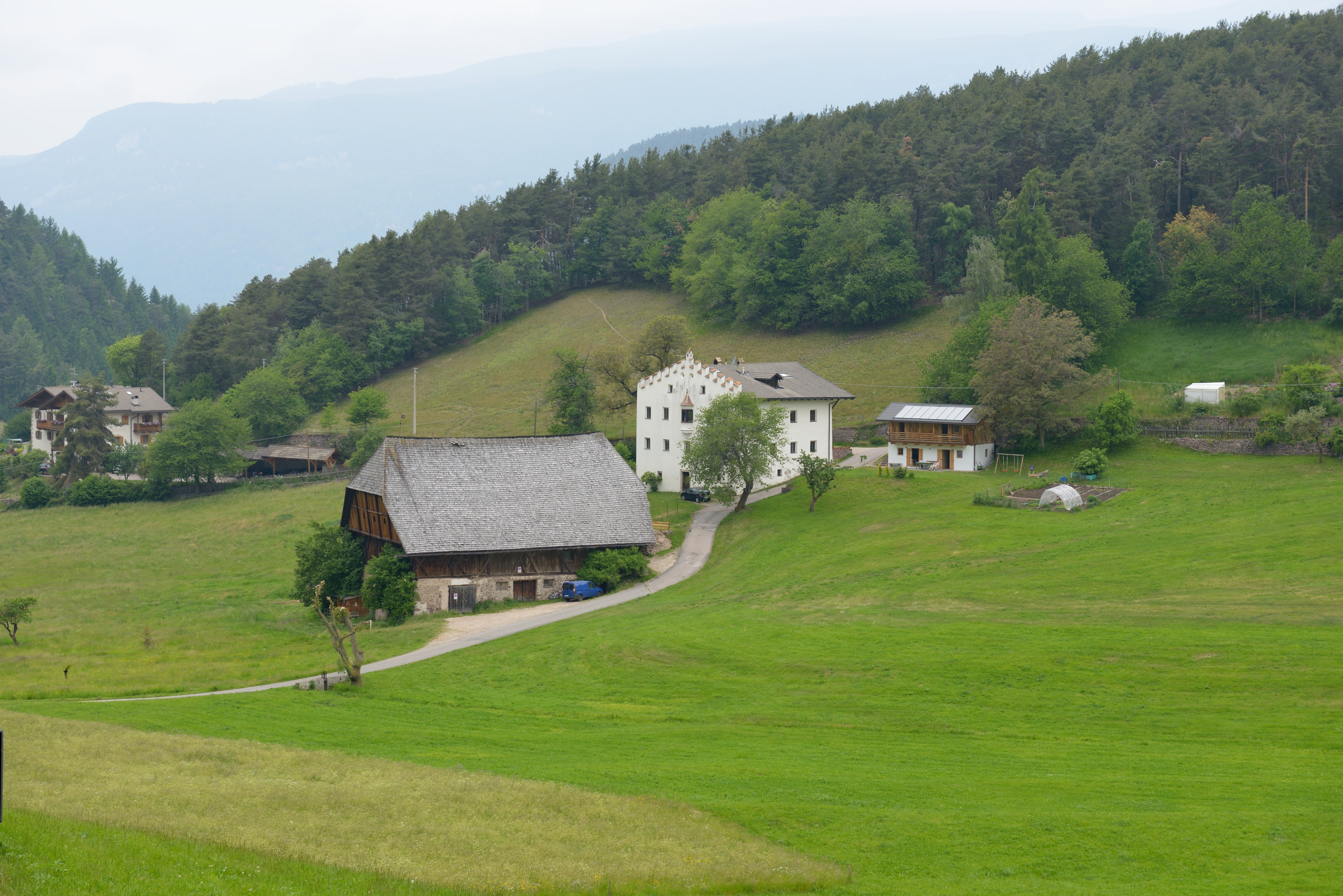 The farmhouse Lafay in Kastelruth